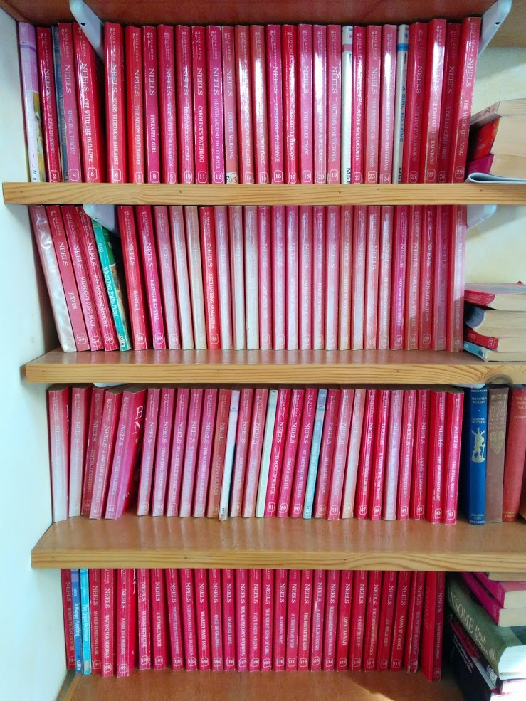 A collection of novels by romance author Betty Neels